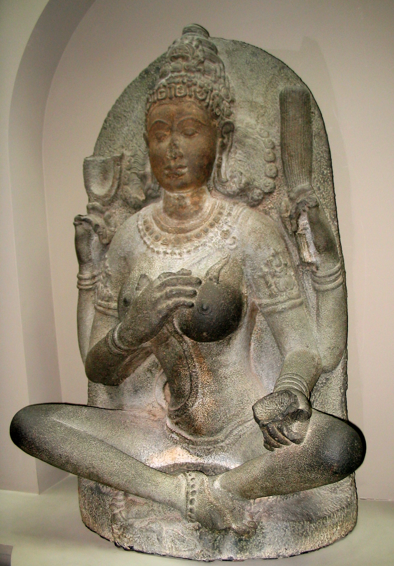 Yogini 10th century Chola dynasty Figure; granite (greenstone) H: 116.0 W: 76.0 D: 43.2 cm Kaveripakkam, Tamil Nadu, India Housed in the Arthur M. Sackler Gallery in the Smithsonian, Washington, D.C.